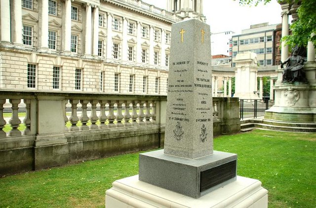 Korean War memorial, Belfast A recently erected memorial, in the grounds of the City Hall, to those who died in the Korean War. The regiments mentioned here (the King’s Royal Irish Hussars and the Royal Ulster Rifles) no longer exist.